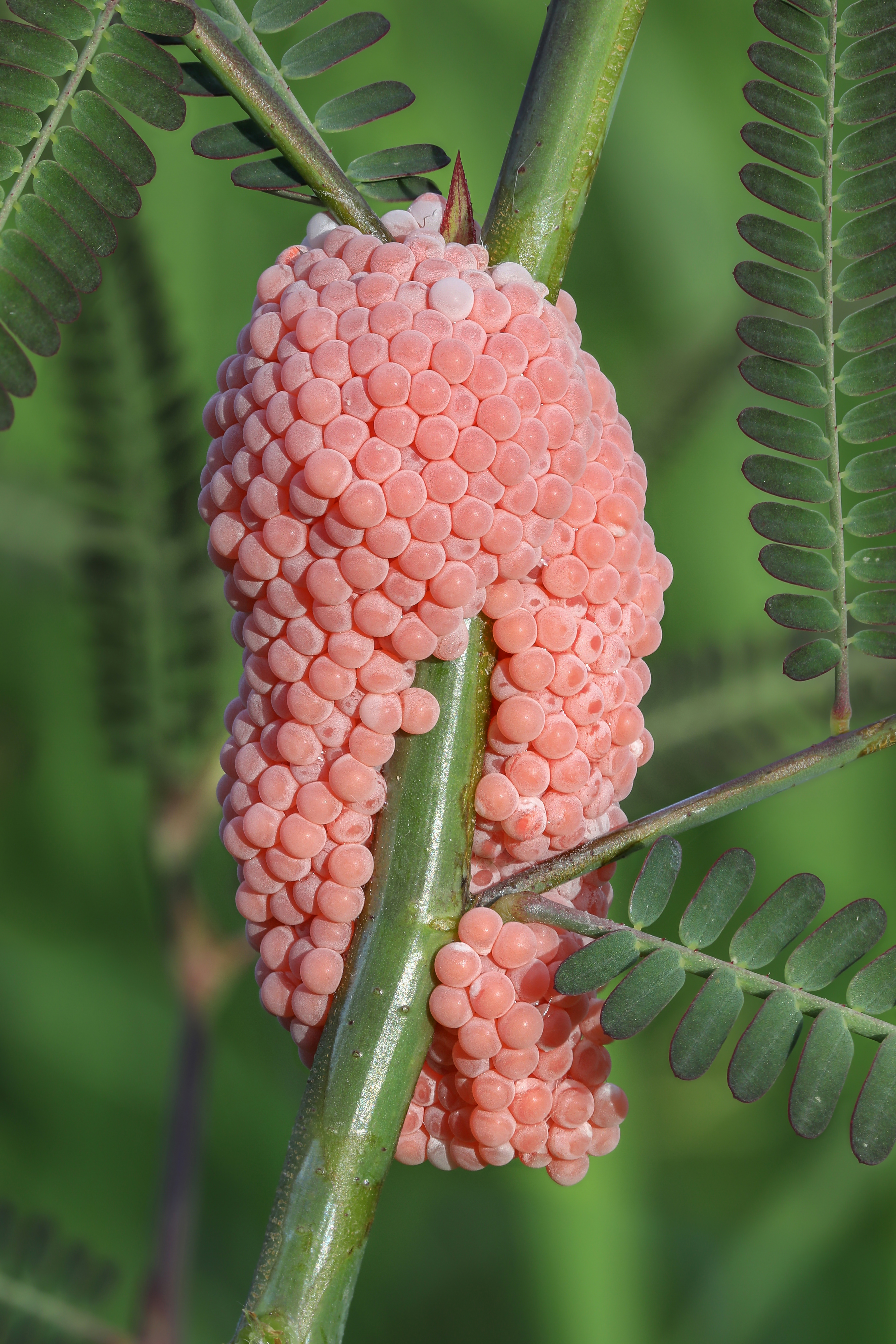 Golden apple snail pink eggs on a stem, in a rice field at golden hour, in Don Det, Si Phan Don, Laos. Focus stacking from 9 pictures.